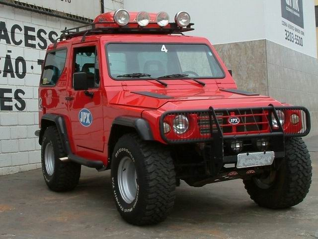 Utilitary JPX Montez.